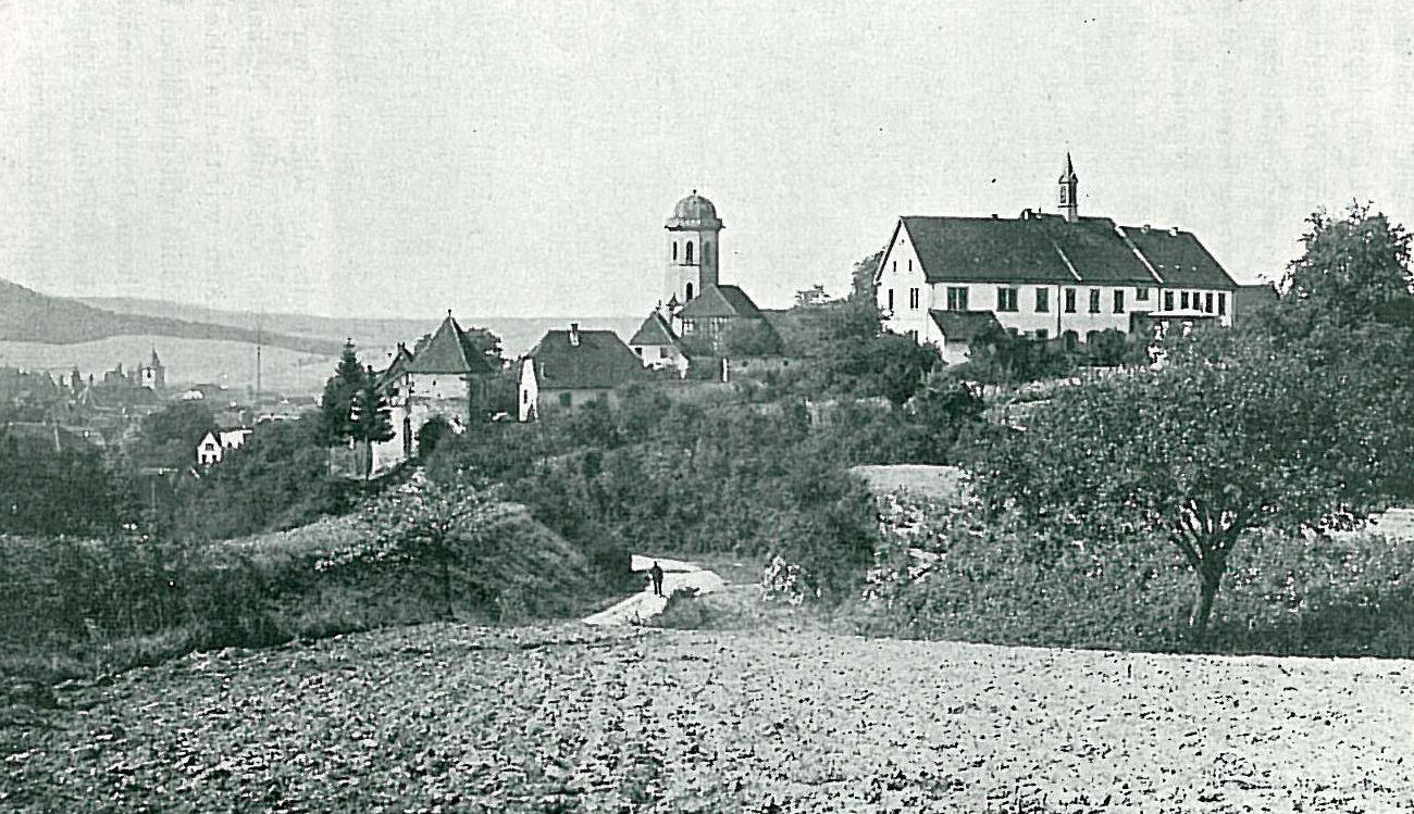 historical view of Sinsheim